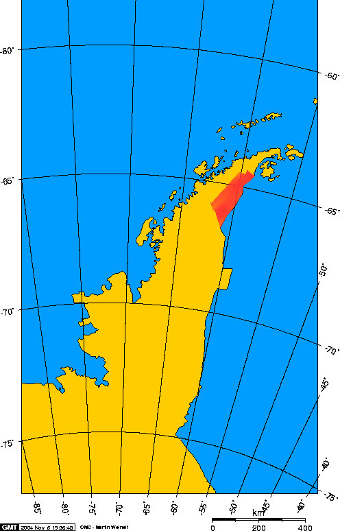 Approximate locations of the missing Larsen A and Larsen B ice-shelves. Note the irregularly shaped island in the north-east corner of the map. Just south of it is where the missing Larsen A ice-shelf began. Note the two islands off the west coast of the peninsula. The southern boundary of the missing portion of Larsen B seems to lie just south of the southernmost island.